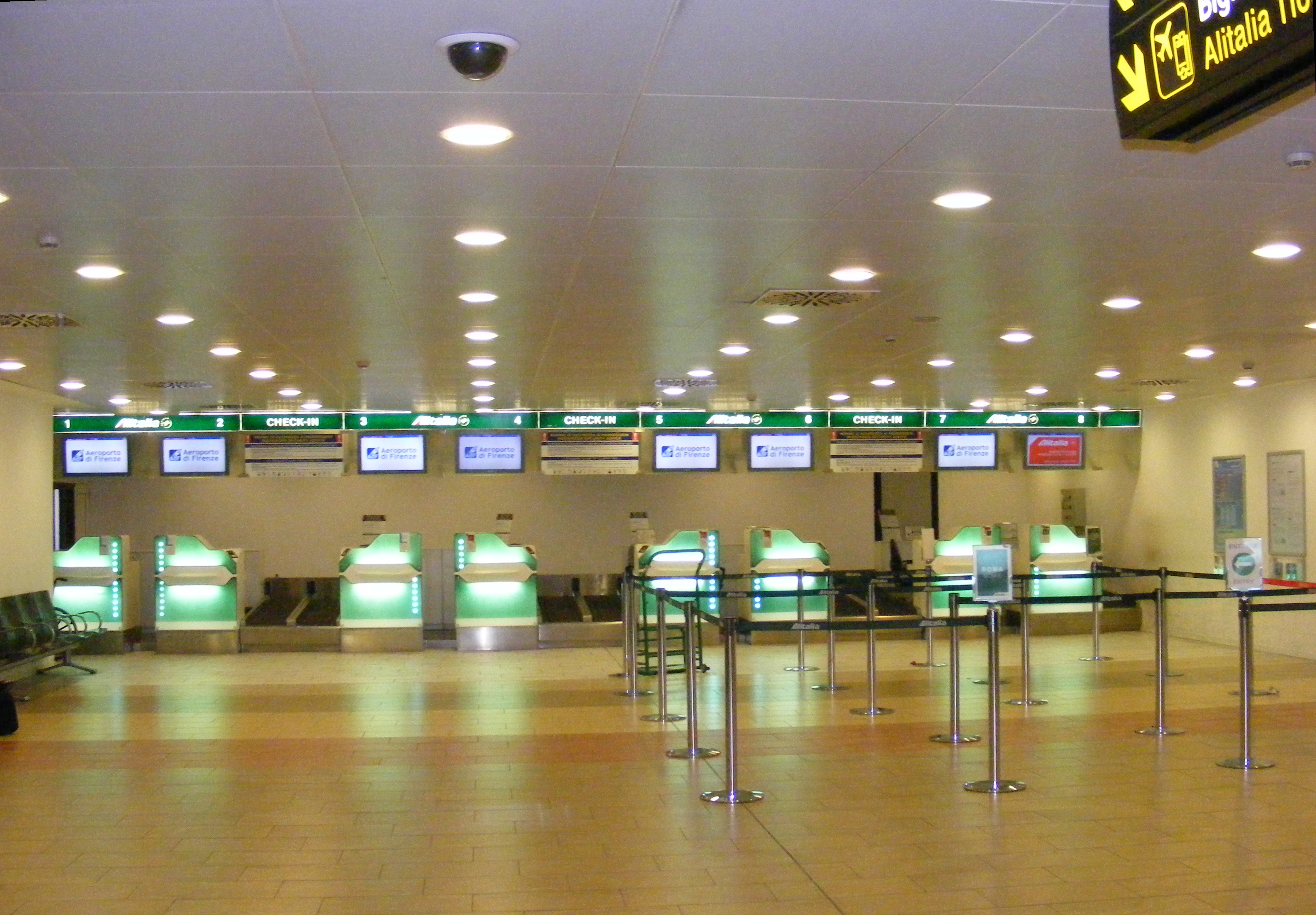 Aeroporto di Firenze - Alitalia Airport check-in counters (1st floor)